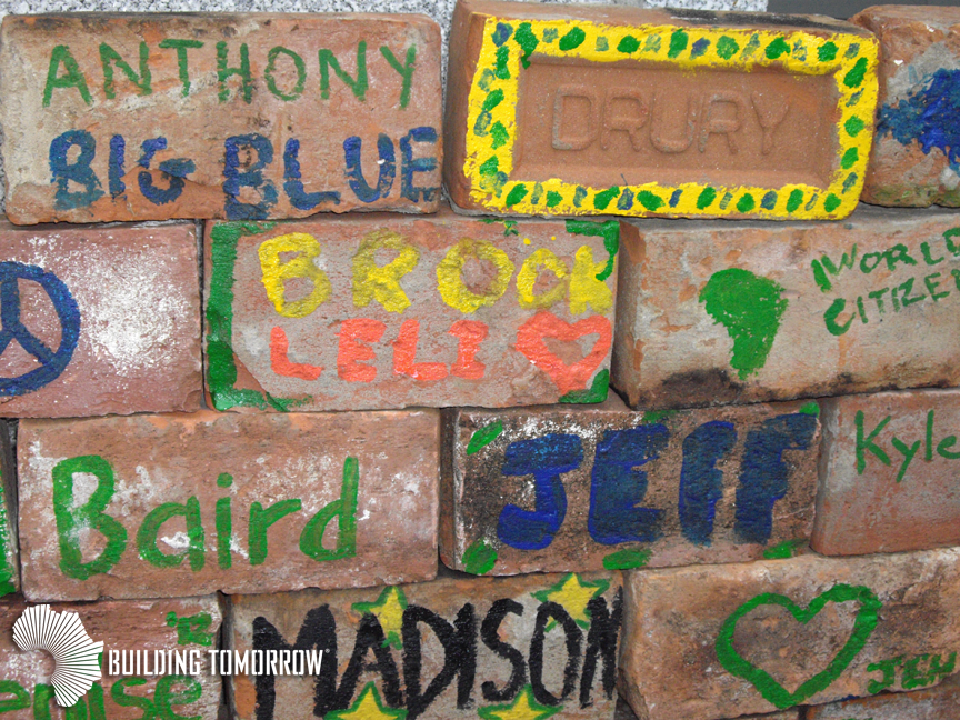 A Brick by Brick fundraiser by the Building Tomorrow Chapter at Middlebury College in Vermont.